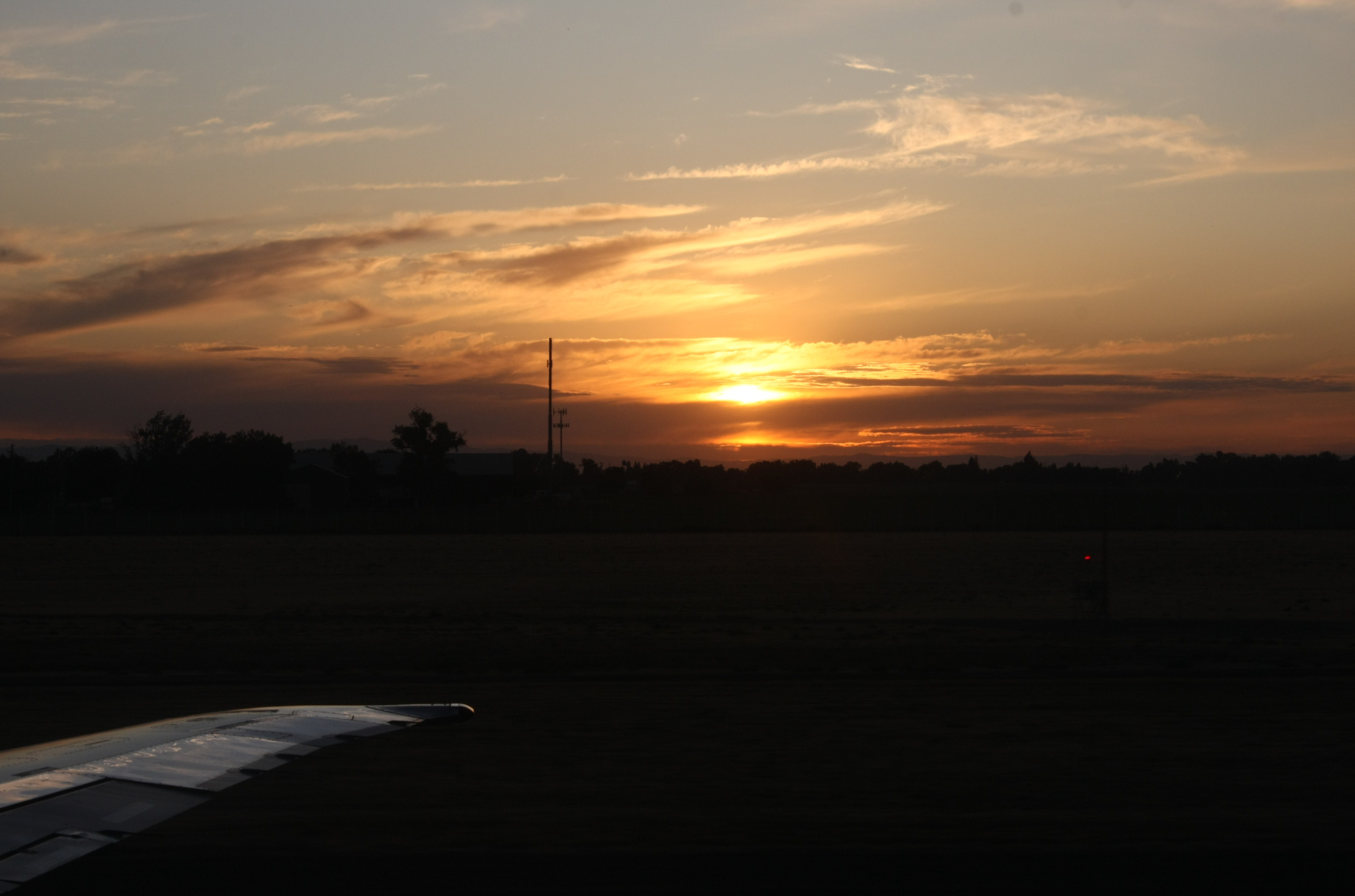 Sunset at the Sacramento Valley, California